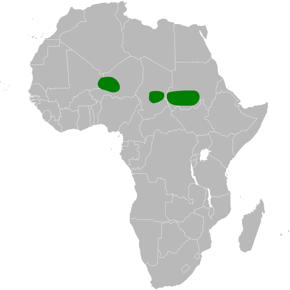 Mirafra rufa distribution map; using BlankMap-Africa.svg, based on